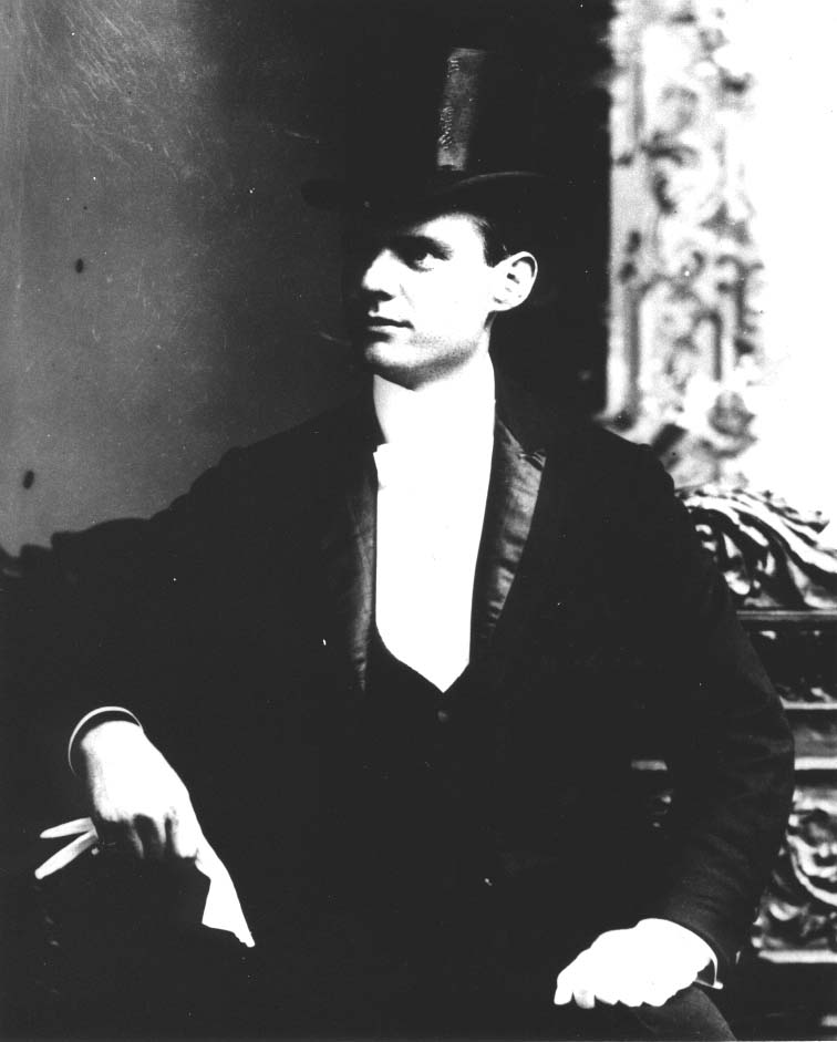 Hamilton Love, seated, wearing top hat and tails